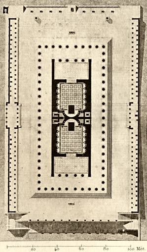 ground plan of Temple of Venus and Roma on heliogravura